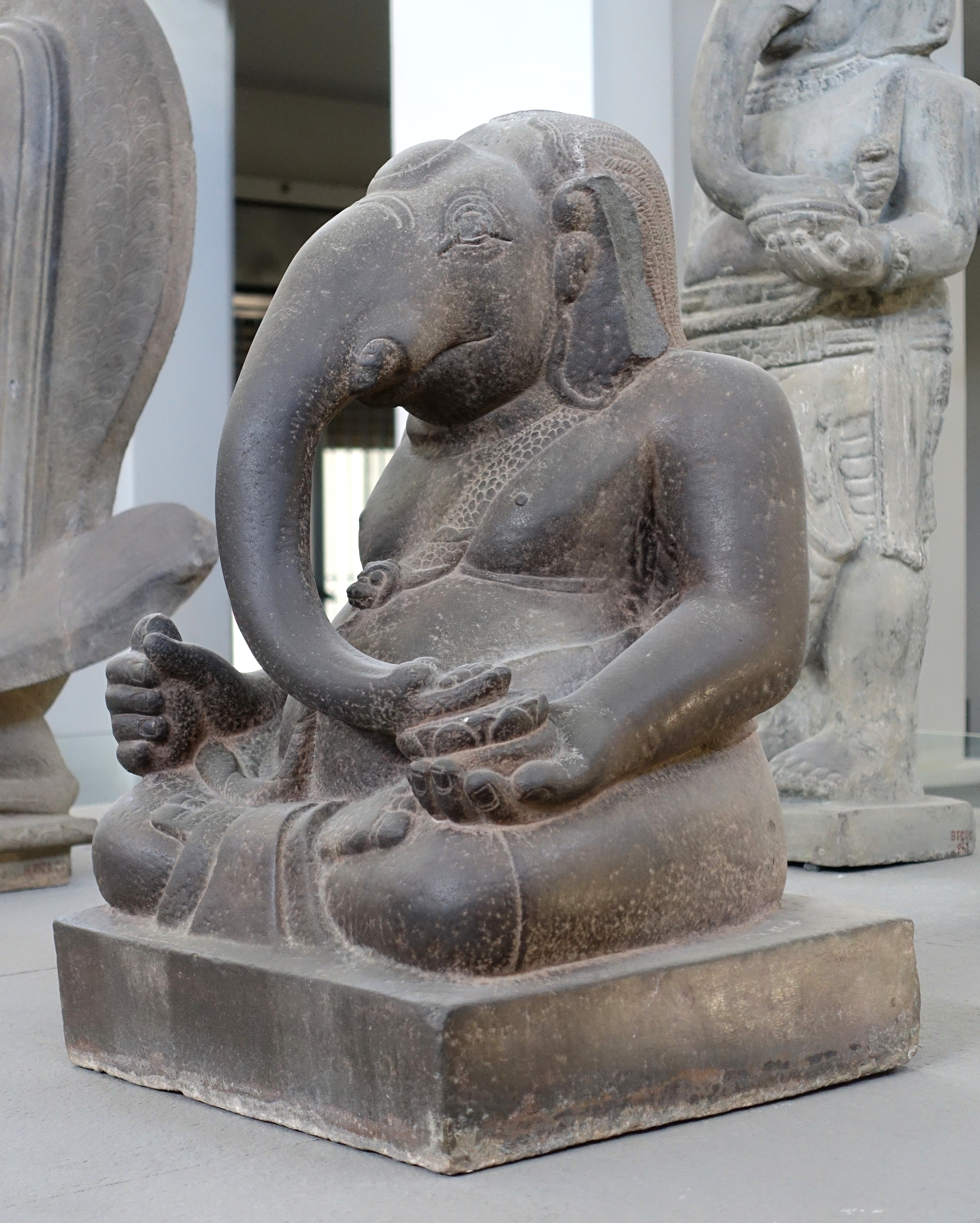 Cham sculpture at the Museum of Cham Sculpture, Da Nang, Vietnam. This artwork is in the public domain because the artist died more than 70 years ago.